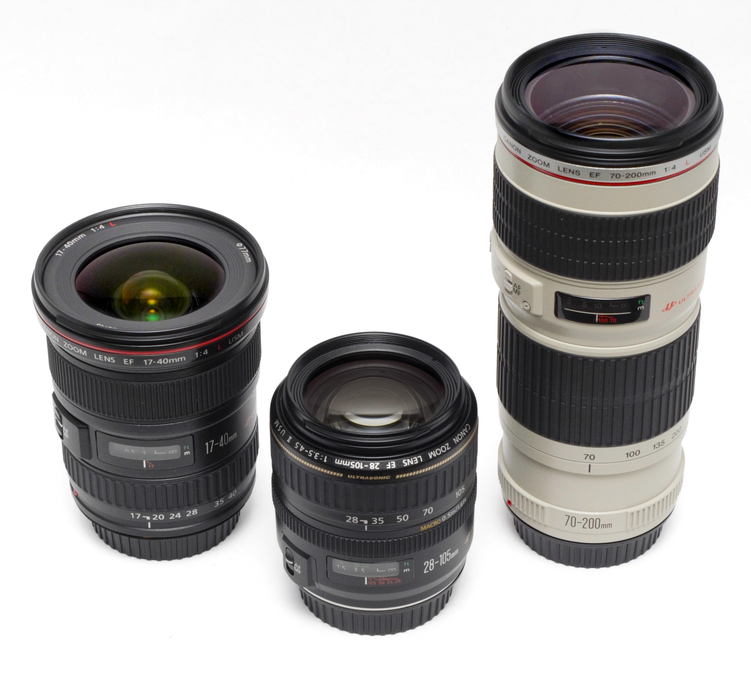 Photo of(left to right)EF 17-40 f/4L USM, EF 28-105 f/3.5-4.5 USM, EF 70-200 f/4L USM.